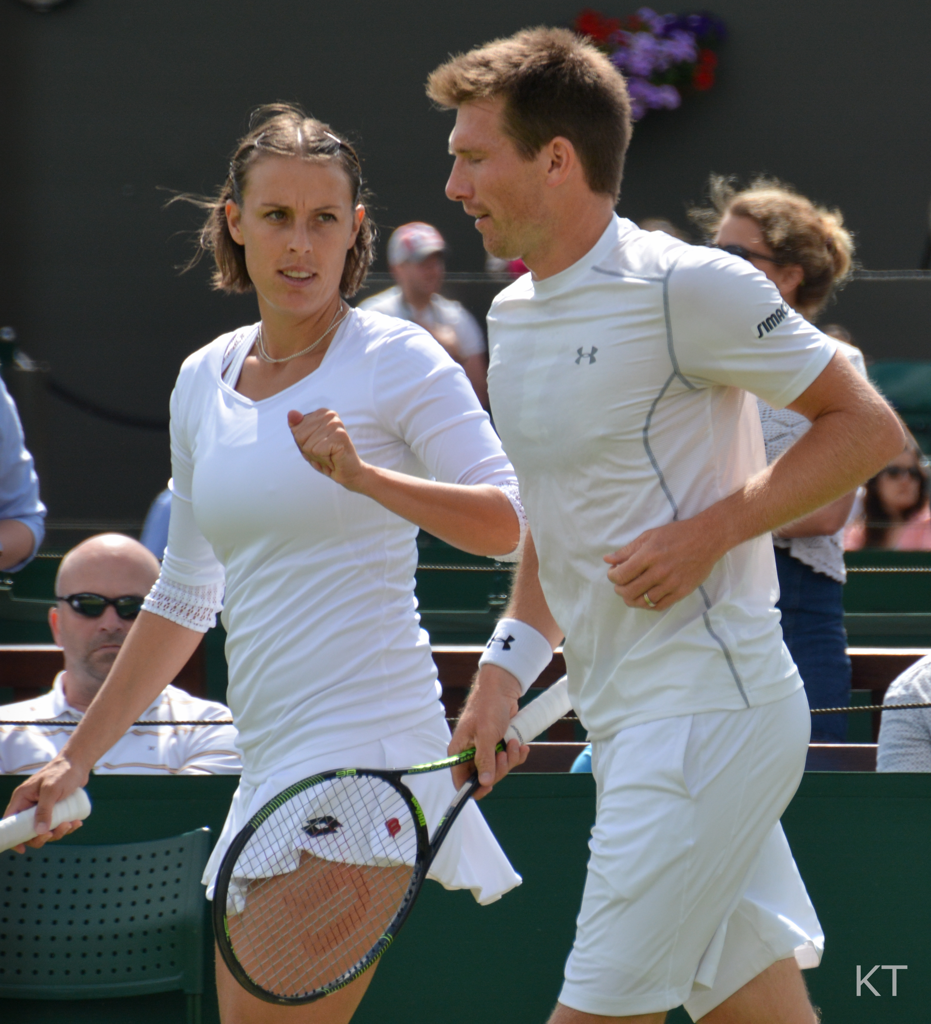 Middle Sunday of Wimbledon 2016.